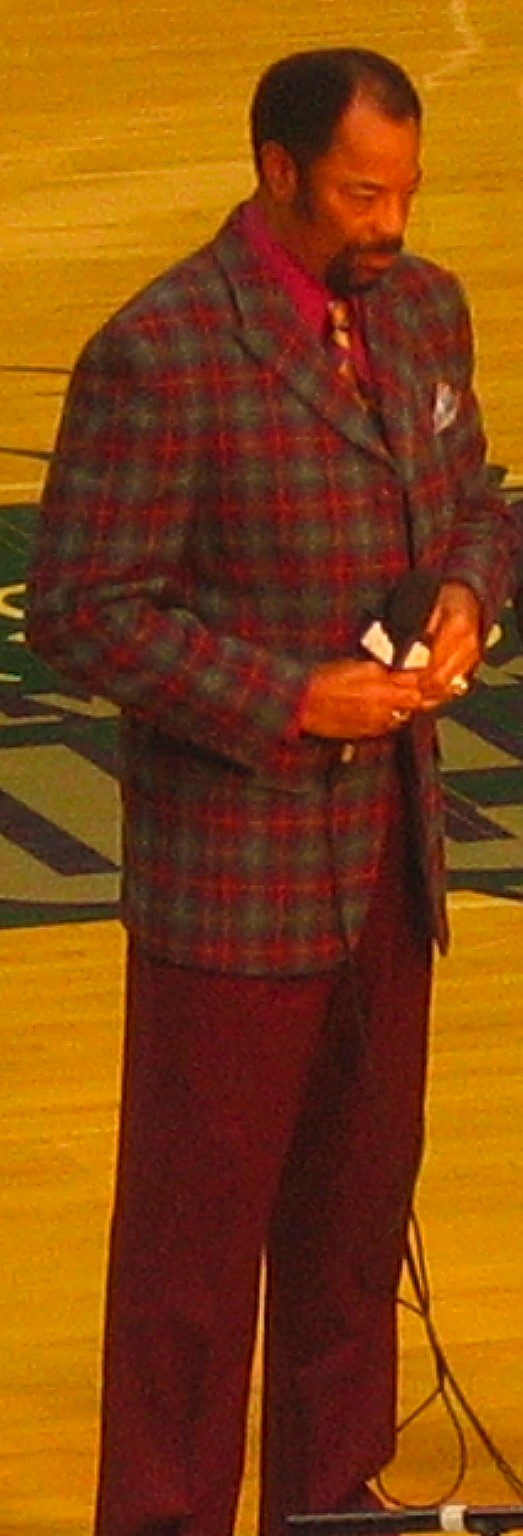 Walt Frazier working as Knicks announcer during a game.